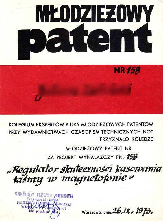 Polish "youth patent", 1973